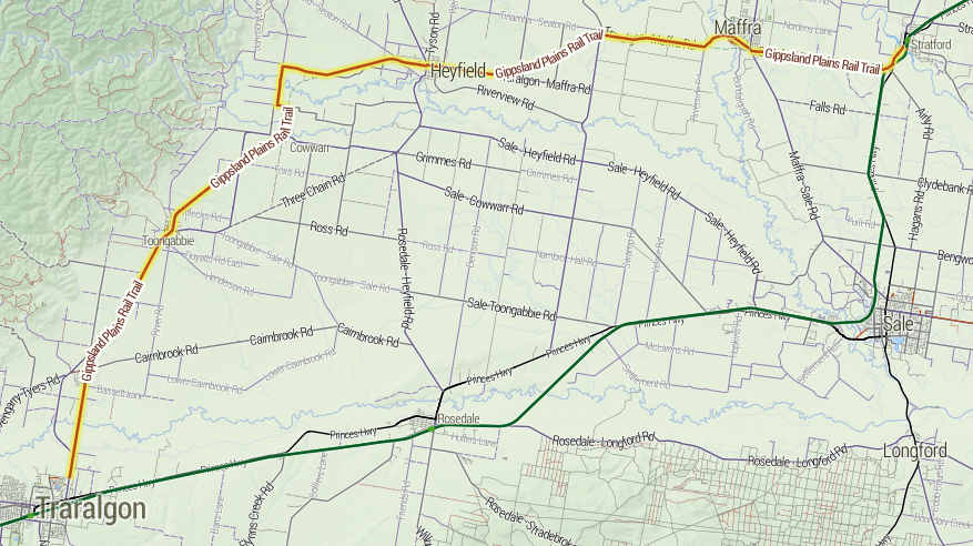 Gippsland Plains Rail Trail Cartography by Steve Bennett, data by OpenStreetMap contributors.